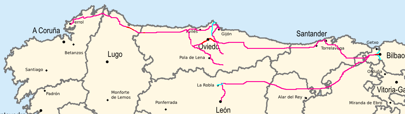 Trial version of the FEVE map. To be improved before using it! To be added: RENFE lines, extent of electrification, major stations, connections and where there is double track. Maybe an inset for the Asturian network? Or a seperate map? I would prefer a terrain (mountain background)